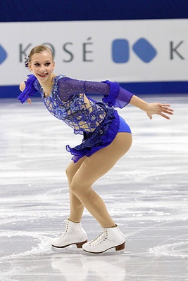 American figure skater Polina Edmunds at the 2015 Four Continents Figure Skating Championships.